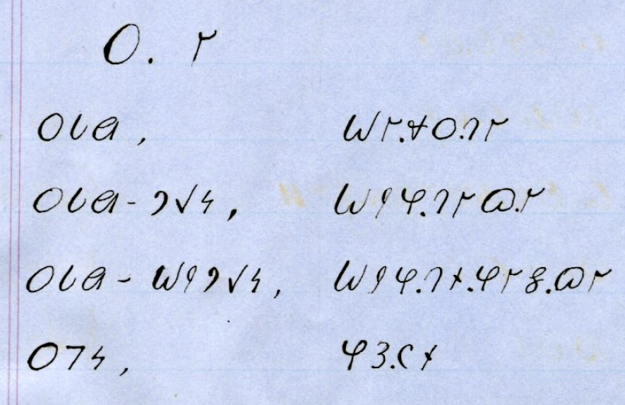 Fragment of Hopi dictionary showing translations into the Hopi language for words that start with the English phoneme /oʊ/.